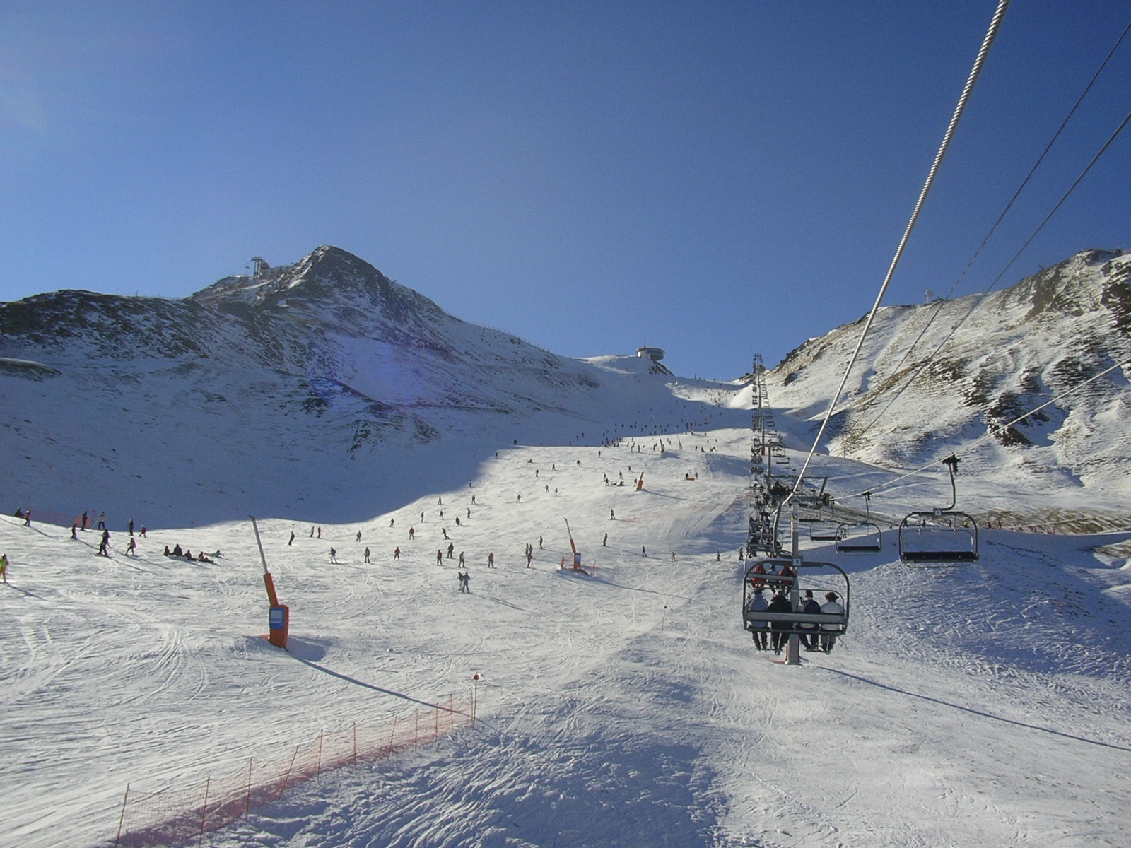 The Pas de la Casa sector of the Grandvalira ski resort, Andorra